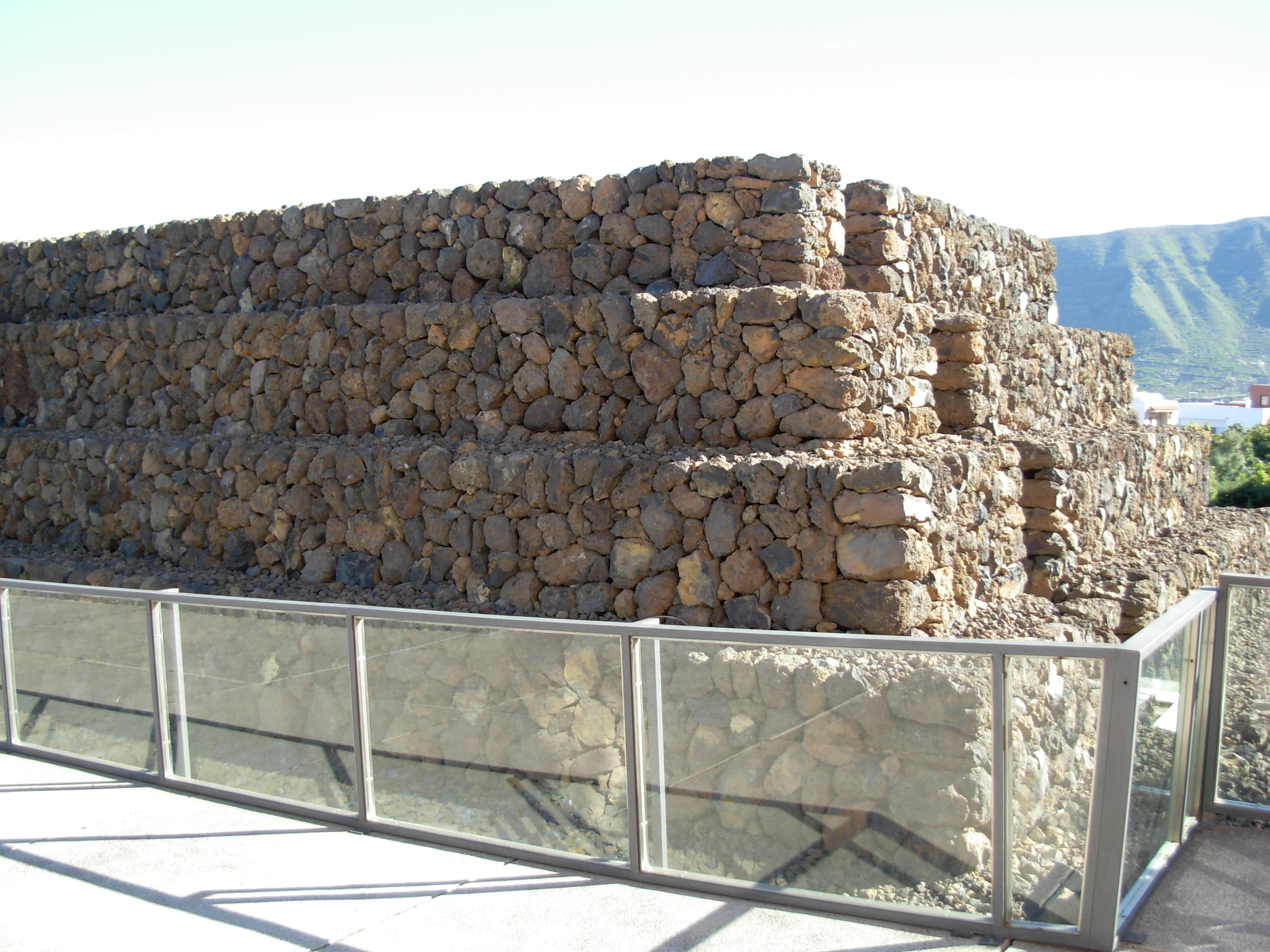 Pyramids of Güímar